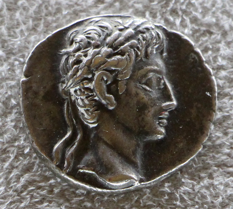 Coins in the Museo archeologico nazionale (Florence)